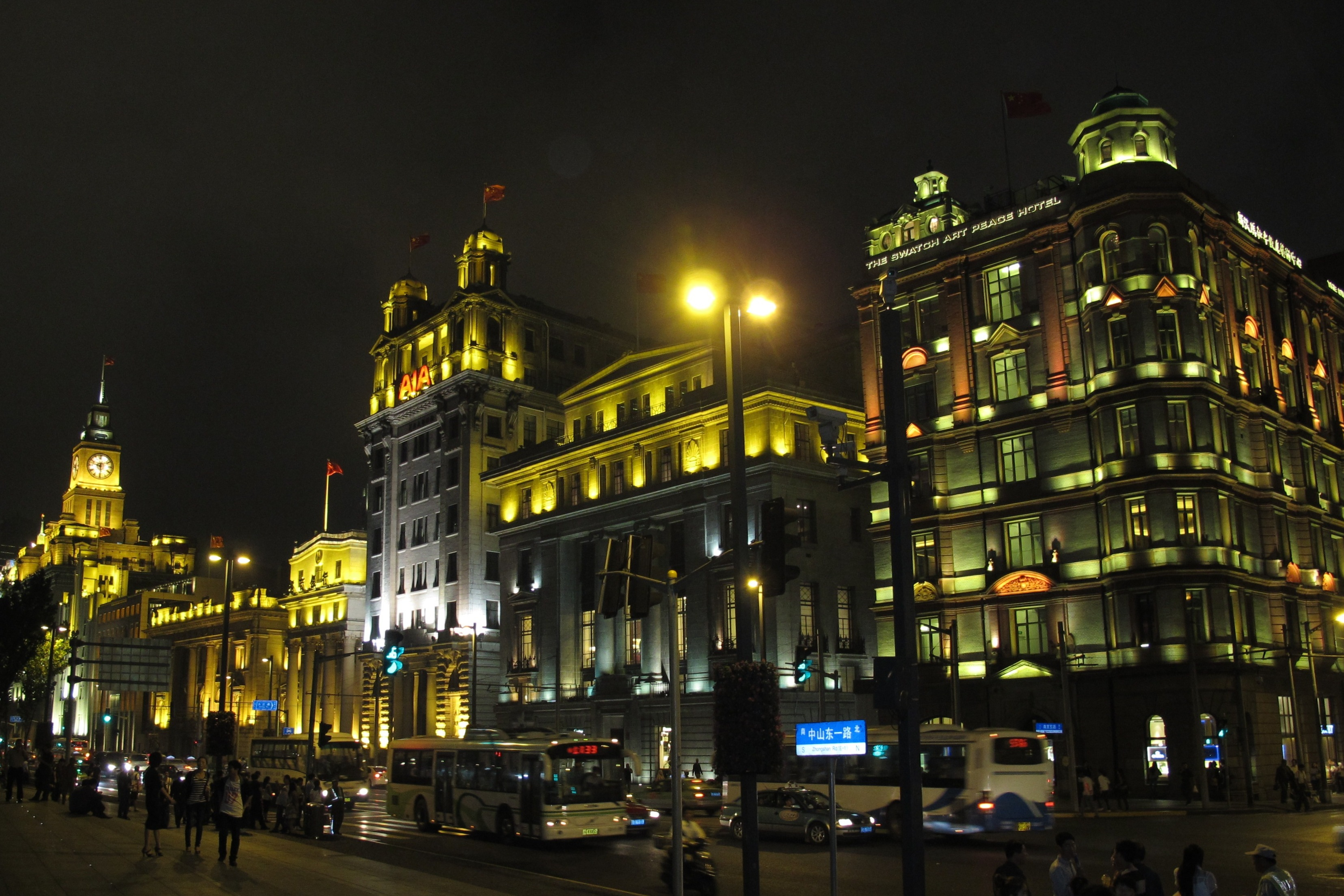 友邦保險大樓 AIA Building